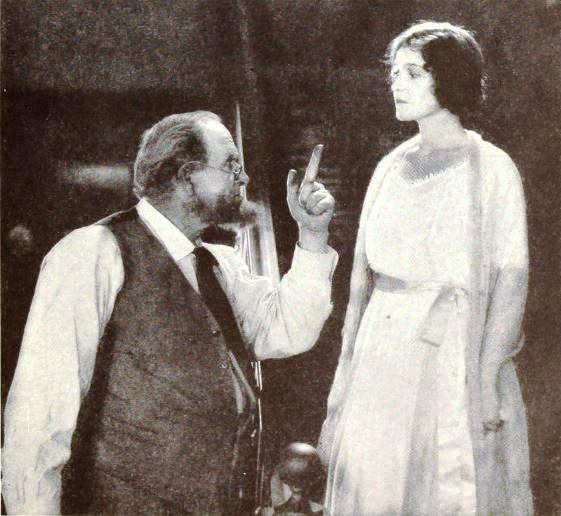 Still from the American silent film Hail the Woman (1921) with Theodore Roberts and Florence Vidor, page 28 of the December 1921 Photoplay.